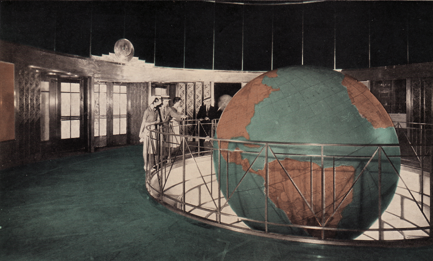 Colorized postcard image of the lobby of the Daily News Building, New York, New York.